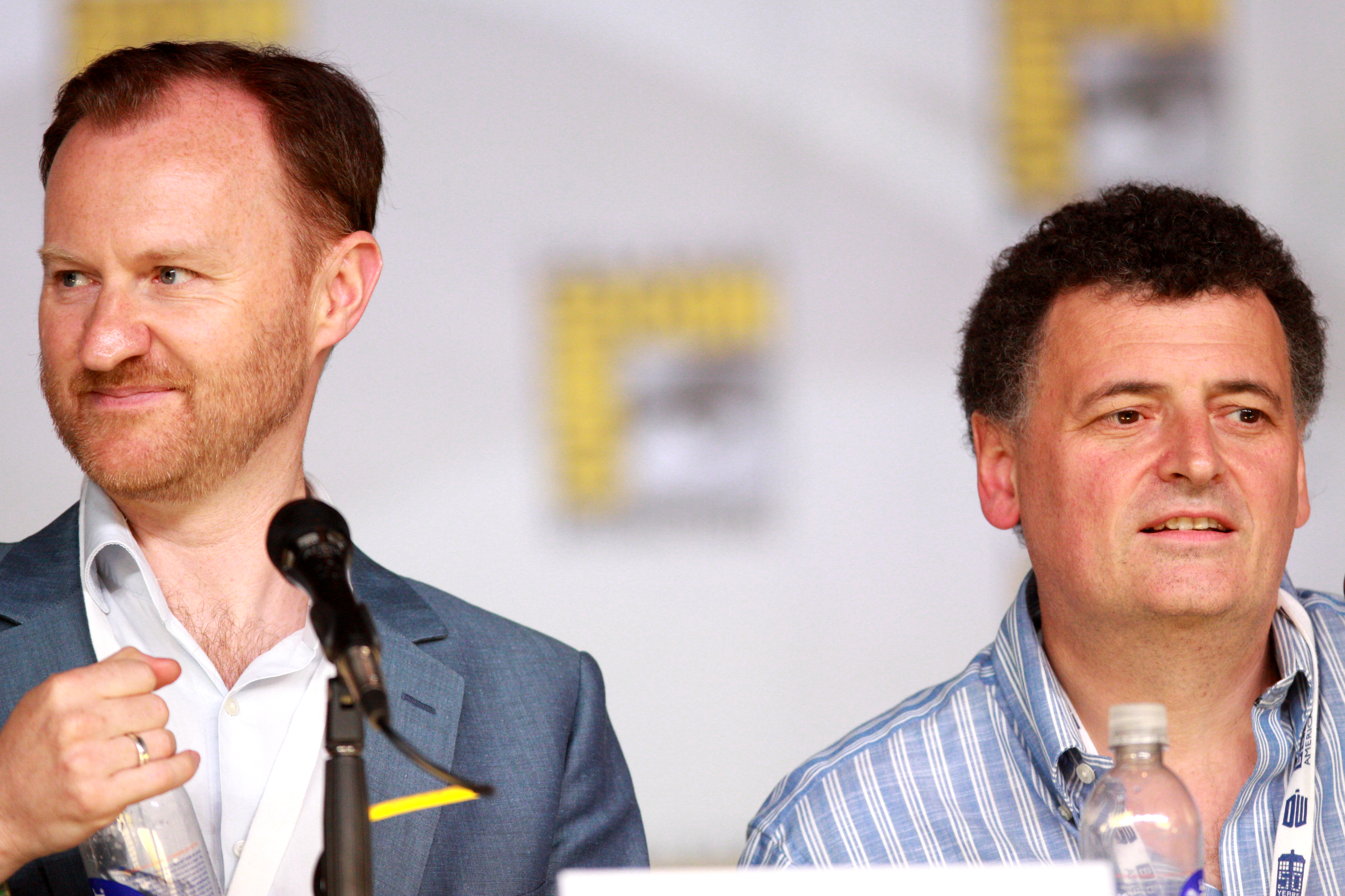 Mark Gatiss and Steven Moffat speaking at the 2013 San Diego Comic Con International, for "Sherlock", at the San Diego Convention Center in San Diego, California.